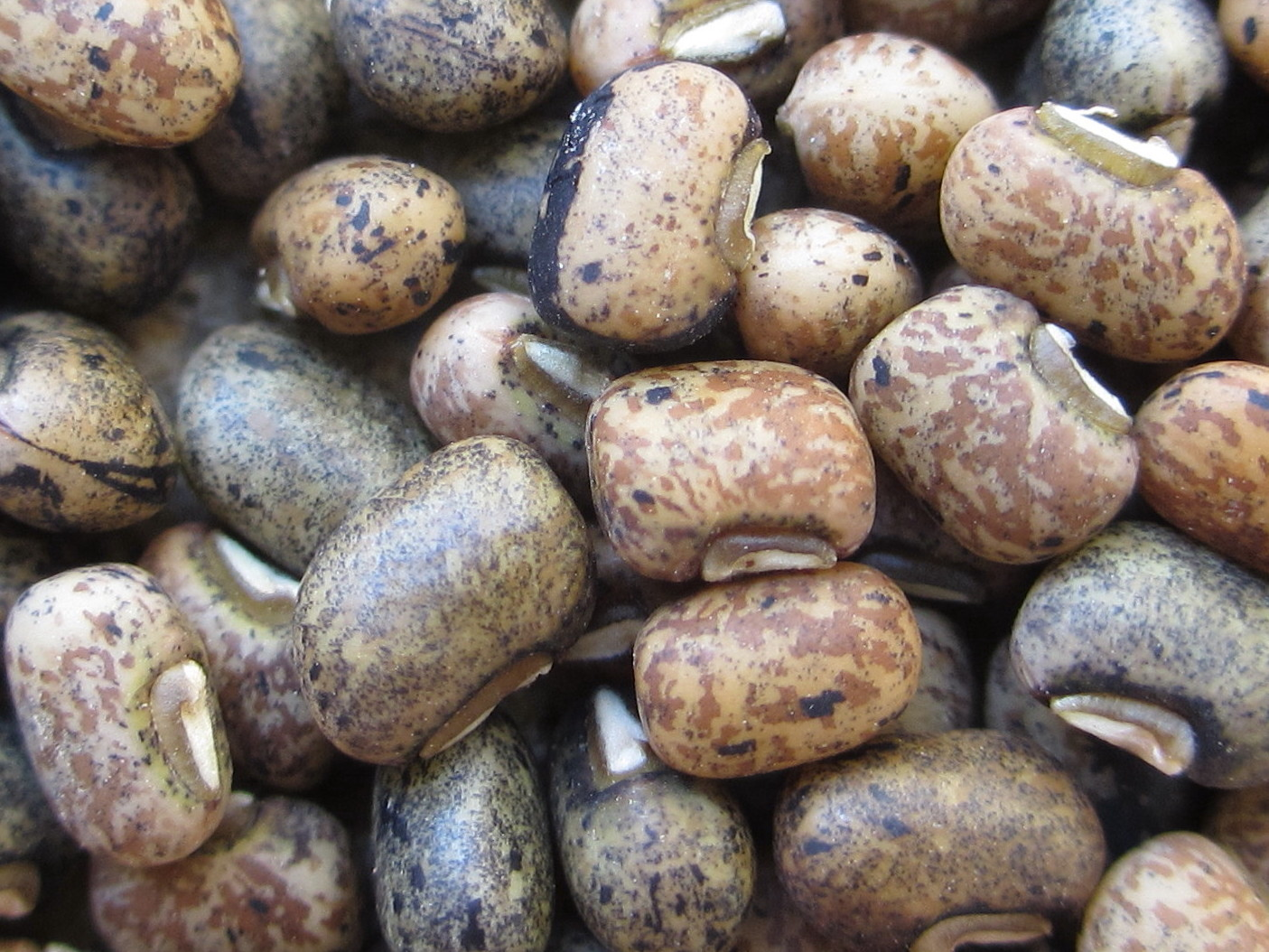 The wild relative of the cultivated cowpea has tiny seeds that show dormancy (slow and erratic germination) and, unlike the cultivated cowpea, its pods spontaneously shatter its seeds as soon as they are ripe. The dormancy is caused by impermeable seed skins.